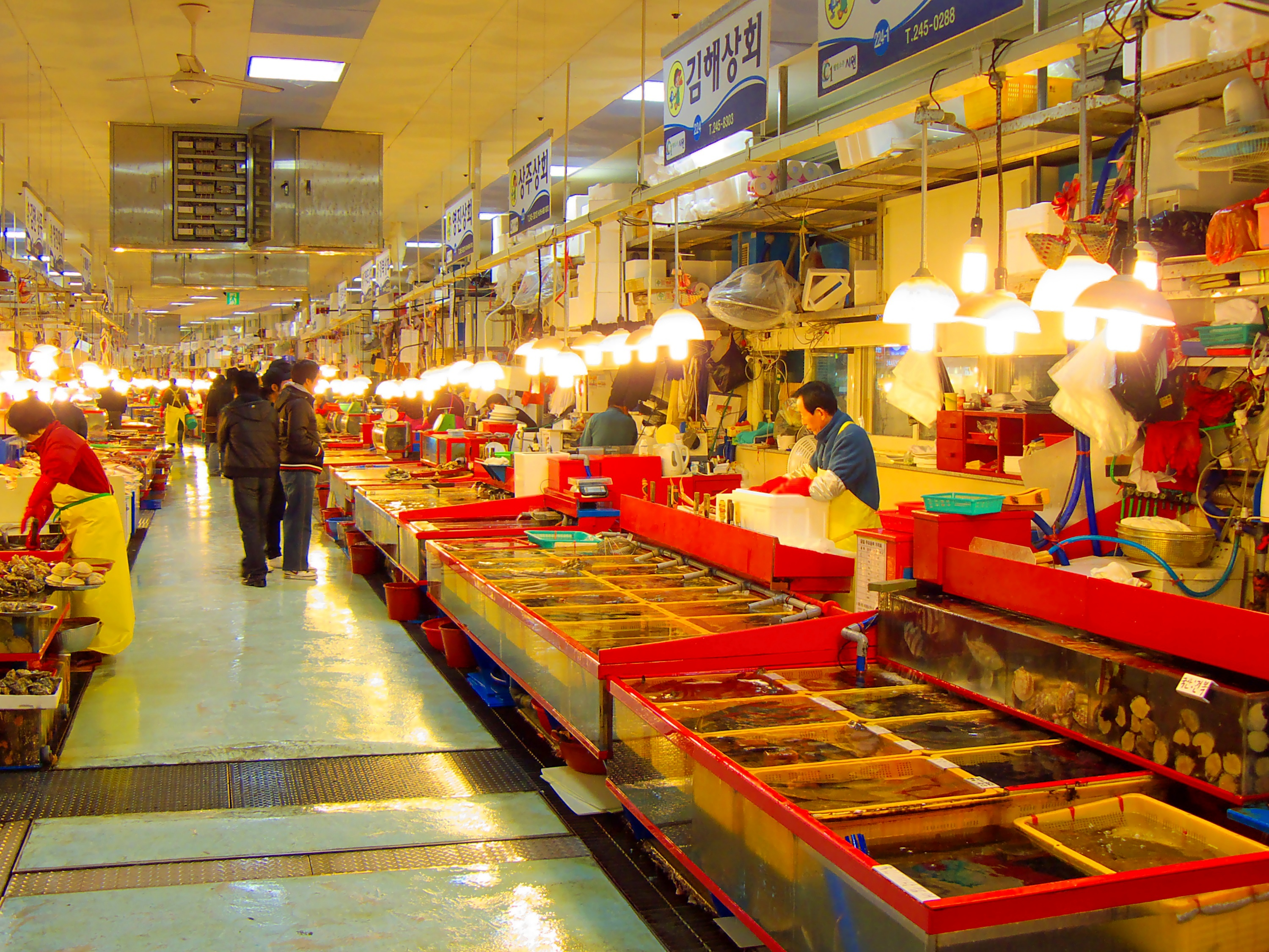 Jagalchi Market, Busan, South Korea